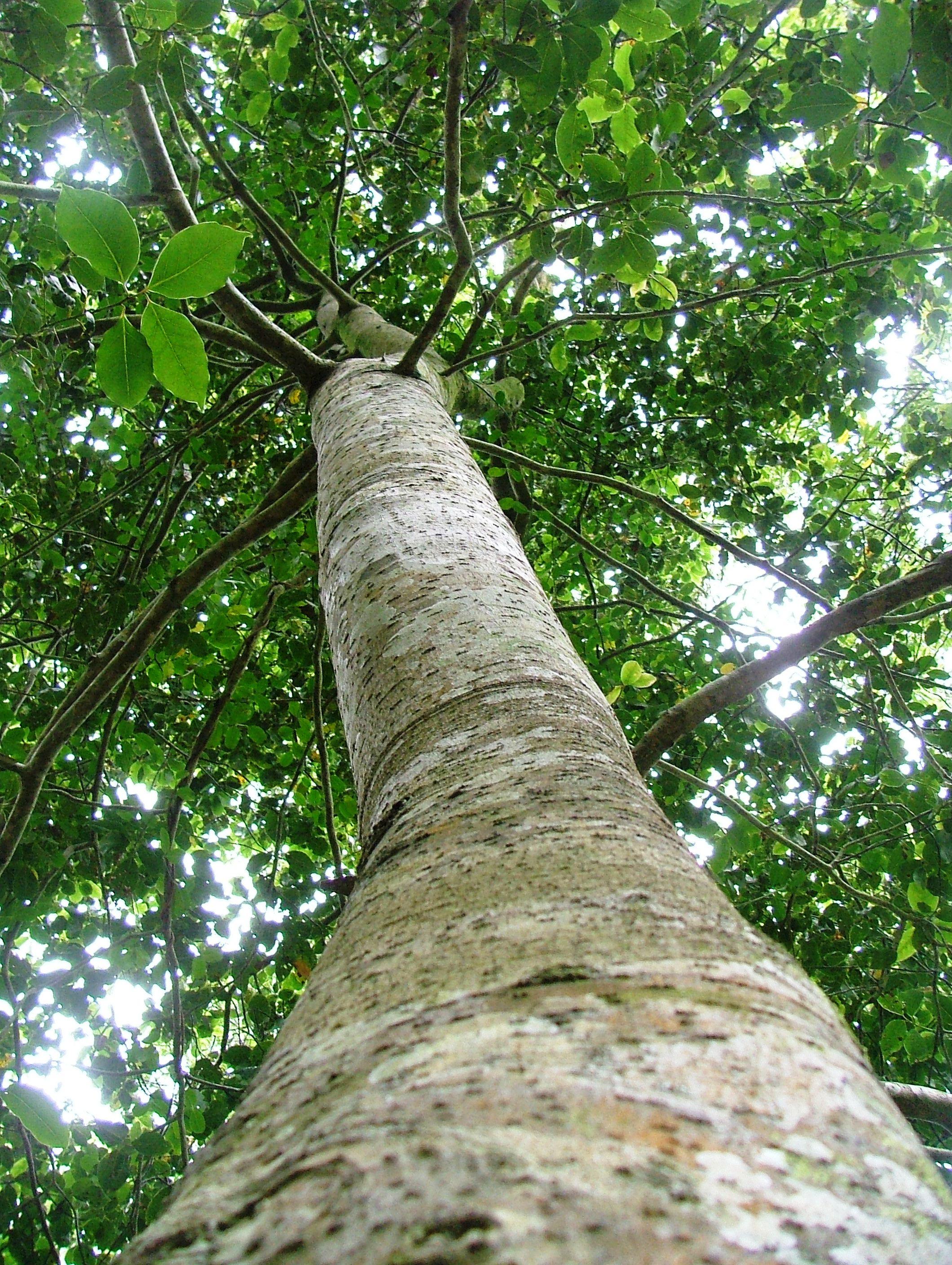 Ocotea bullata. The Black Stinkwood Tree. Cape Town.